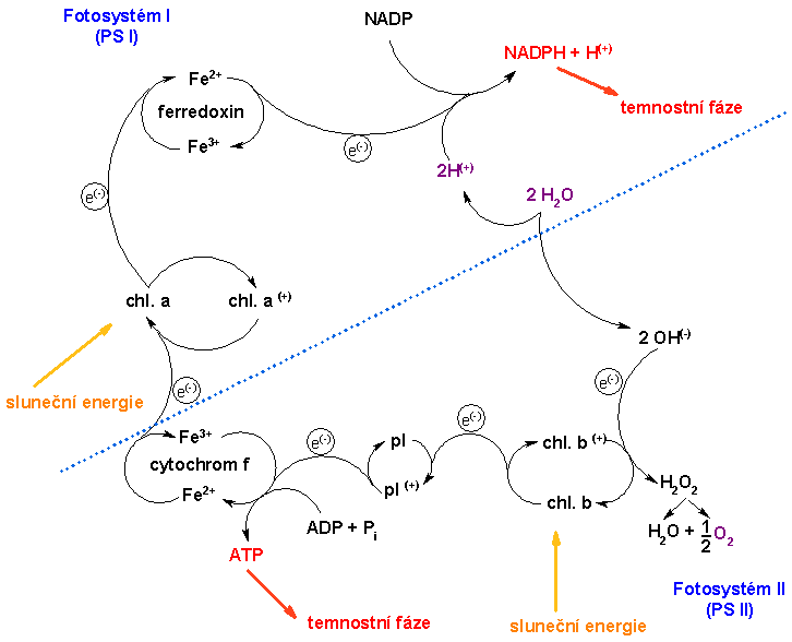 Photosynthesis - light reactions